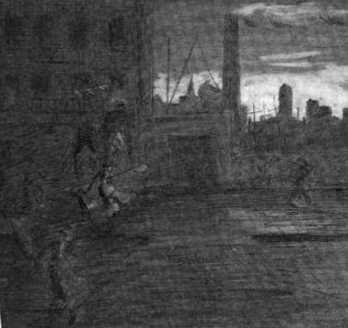 A work done by Ethel Klinck before she married artist Jerome Myers